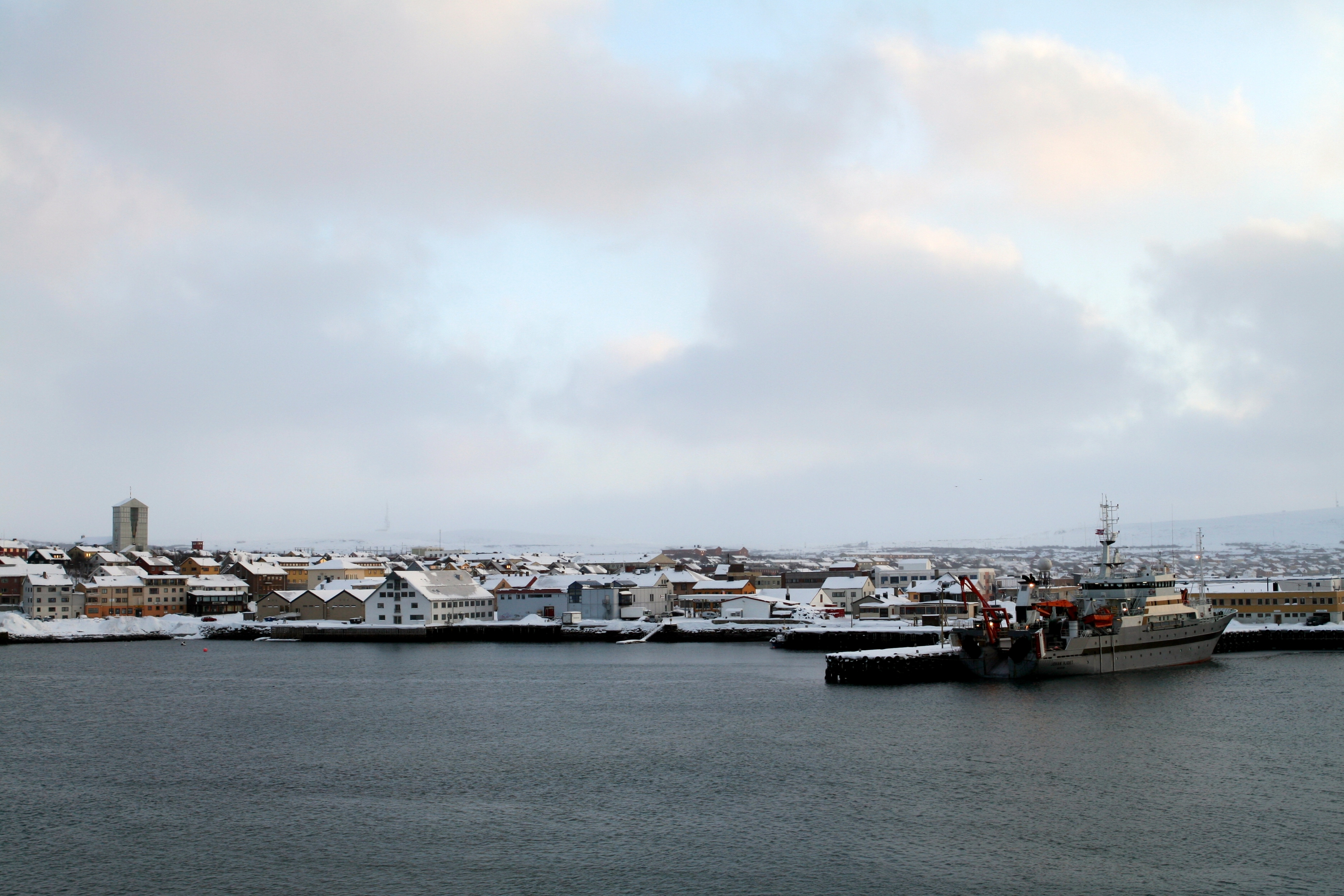 City and harbour of Vadsø, Norway. The ship is research vessel R/V Johan Hjort.